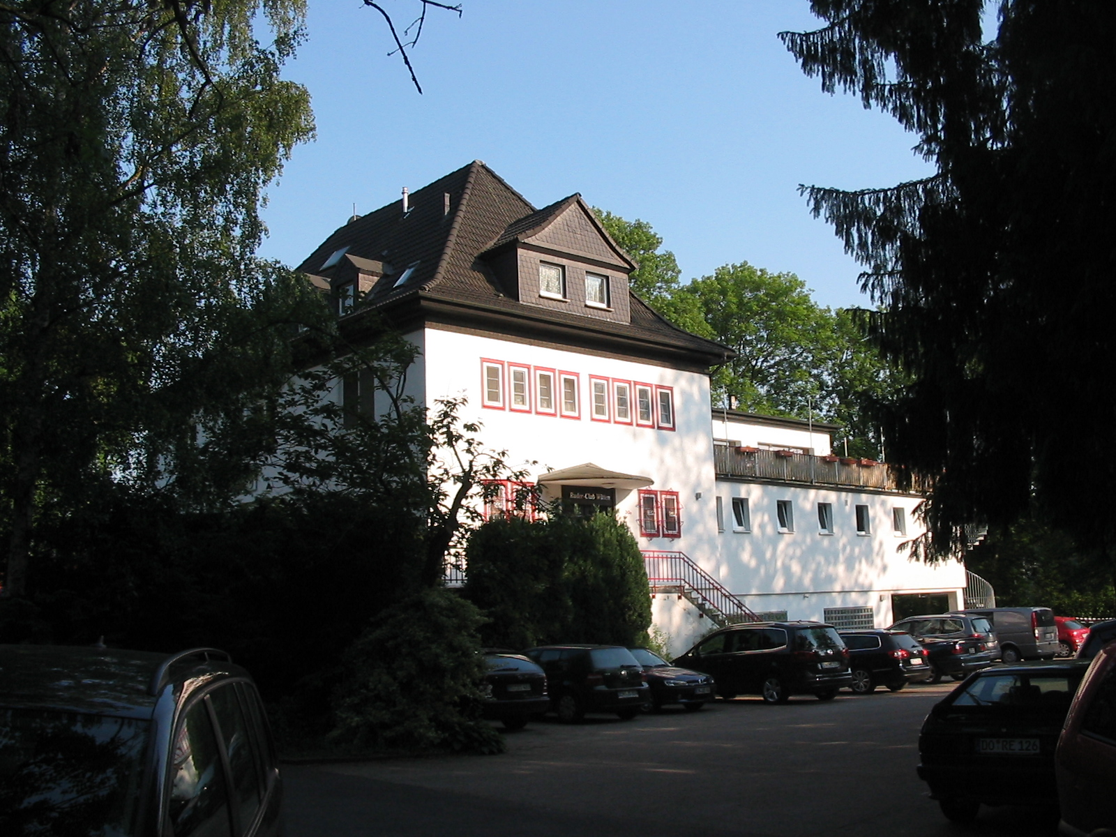 Boathouse of Ruder-Club Witten (Rowing Club Witten)